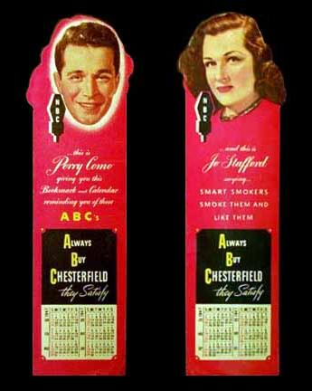 Promotional reversible bookmark with calendar. Copyright details This promotional combination bookmark/calendar was a promotion for Chesterfield Supper Club and Chesterfield cigarettes in 1947 and can be dated by the calendar on both sides. The die-cut piece has Perry Como on one side and Jo Stafford on the other. There are no copyright marks on either side, as can be seen in the photo links. It is well within the free license timeframe. It was created for distribution to the radio show's listeners to induce regular listening and also to promote the Chesterfield brand of cigarettes. Using a timeframe for the show, it was produced after 1946 but before 1948: Co-hosting of the program by Jo Stafford did not begin until 1946 and Peggy Lee did not begin until 1948. There is no evidence of any copyright claims for the item.